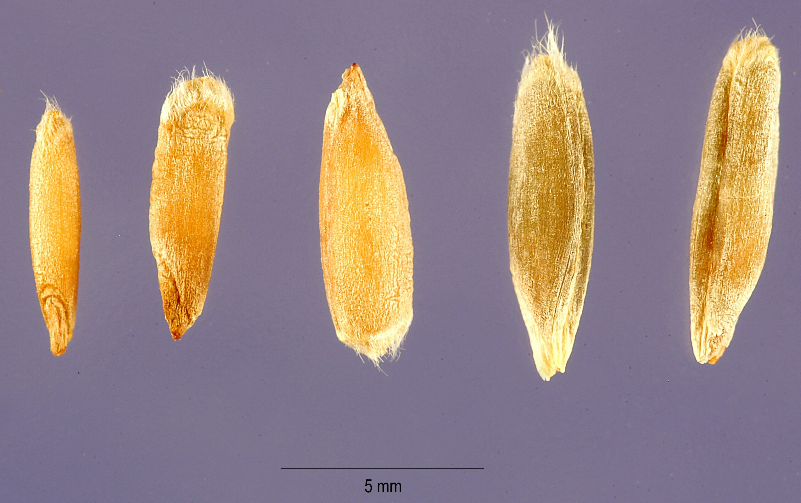 secale cereale - cereal rye